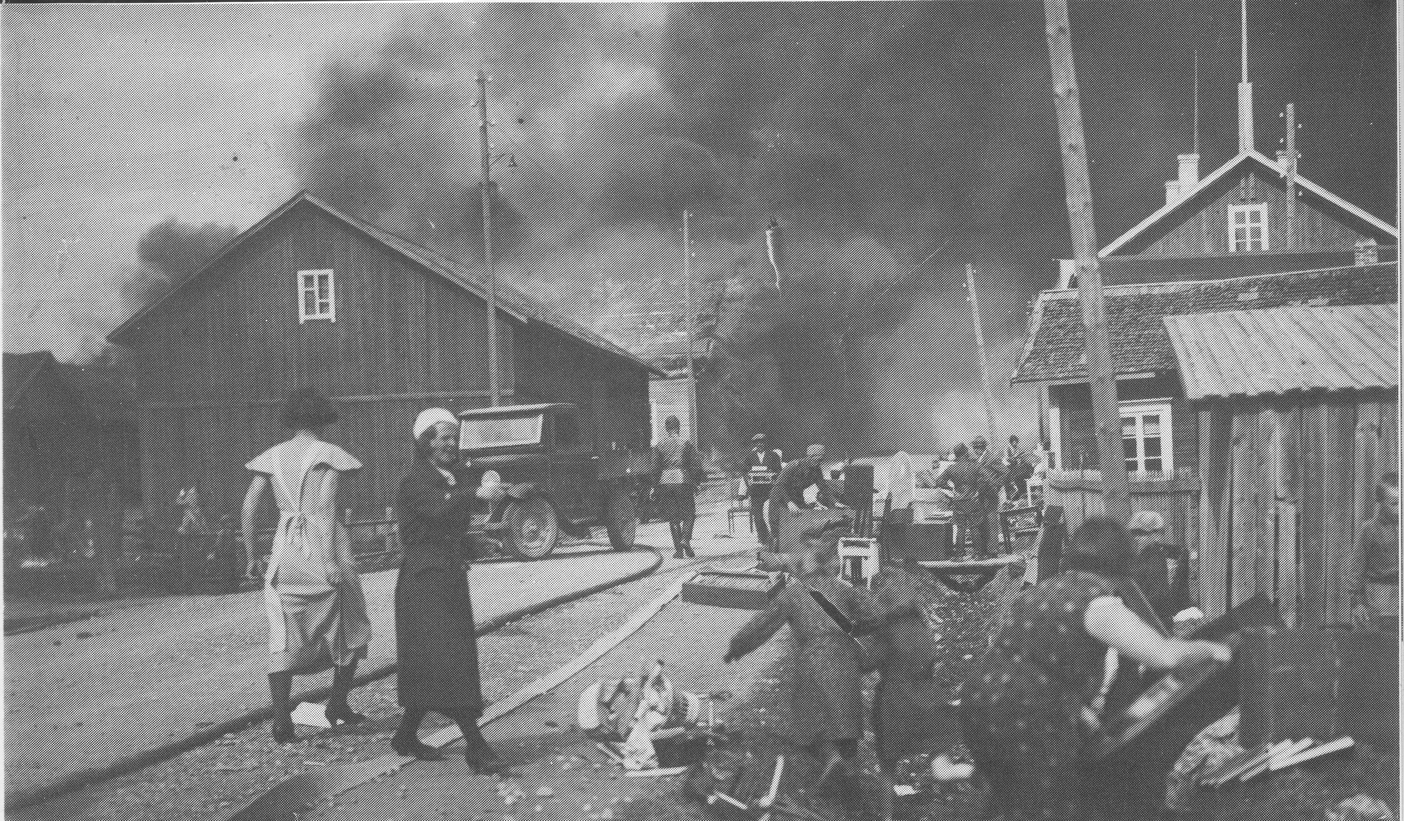 Fire in Lieksa year 1934